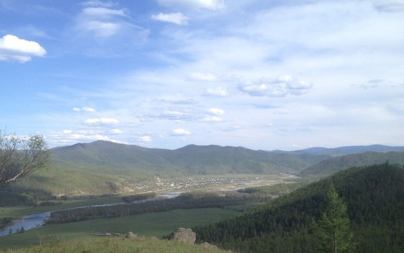 village Engorboy